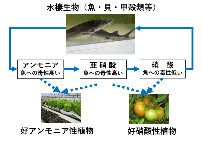 basic model of aquaponics